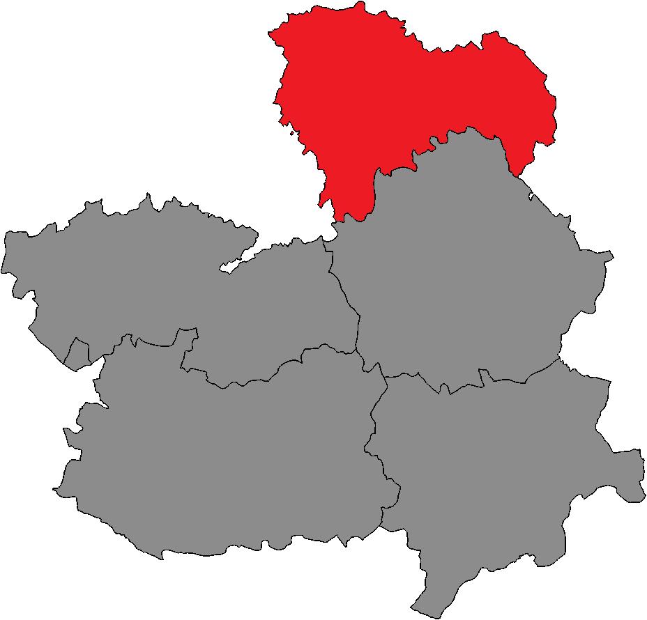 Cortes of Castilla-La Mancha district of Guadalajara.